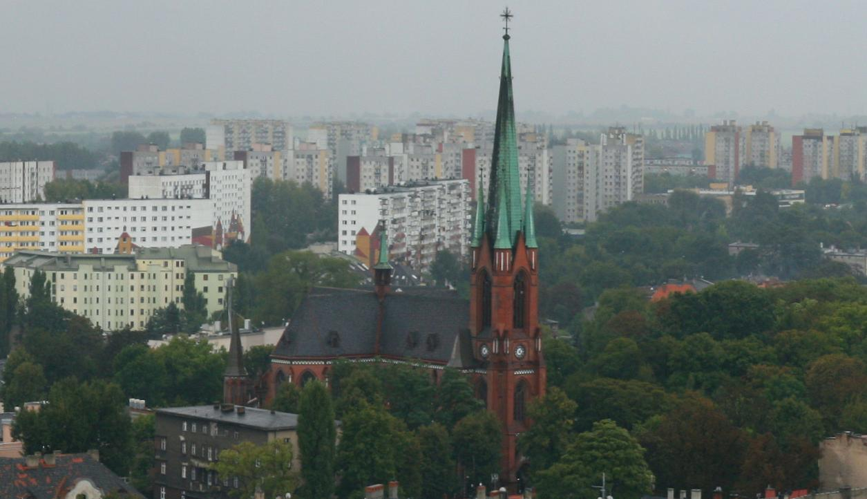 Detail of Image:Gliwice - Panorama 01.jpg - Church of St. Peter and Paul